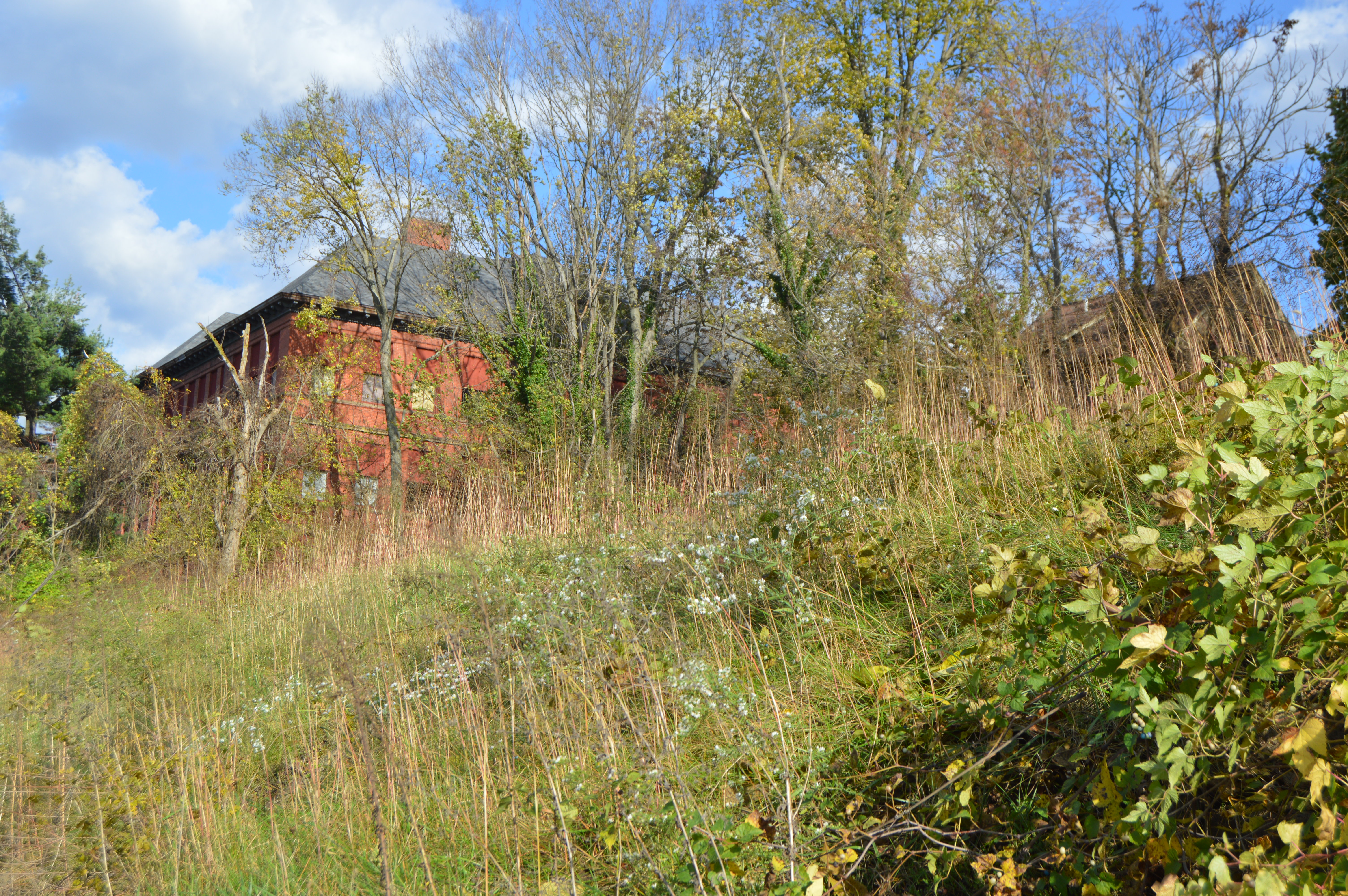 An empty lot on the eastern side of Murdoch Avenue (West Virginia Route 68 north of the Twelfth Street intersection in Parkersburg, West Virginia, United States. This was the site of the Walton Wait House. Although listed on the National Register of Historic Places, the 1860s house has been destroyed, although it has not yet been removed from the Register.